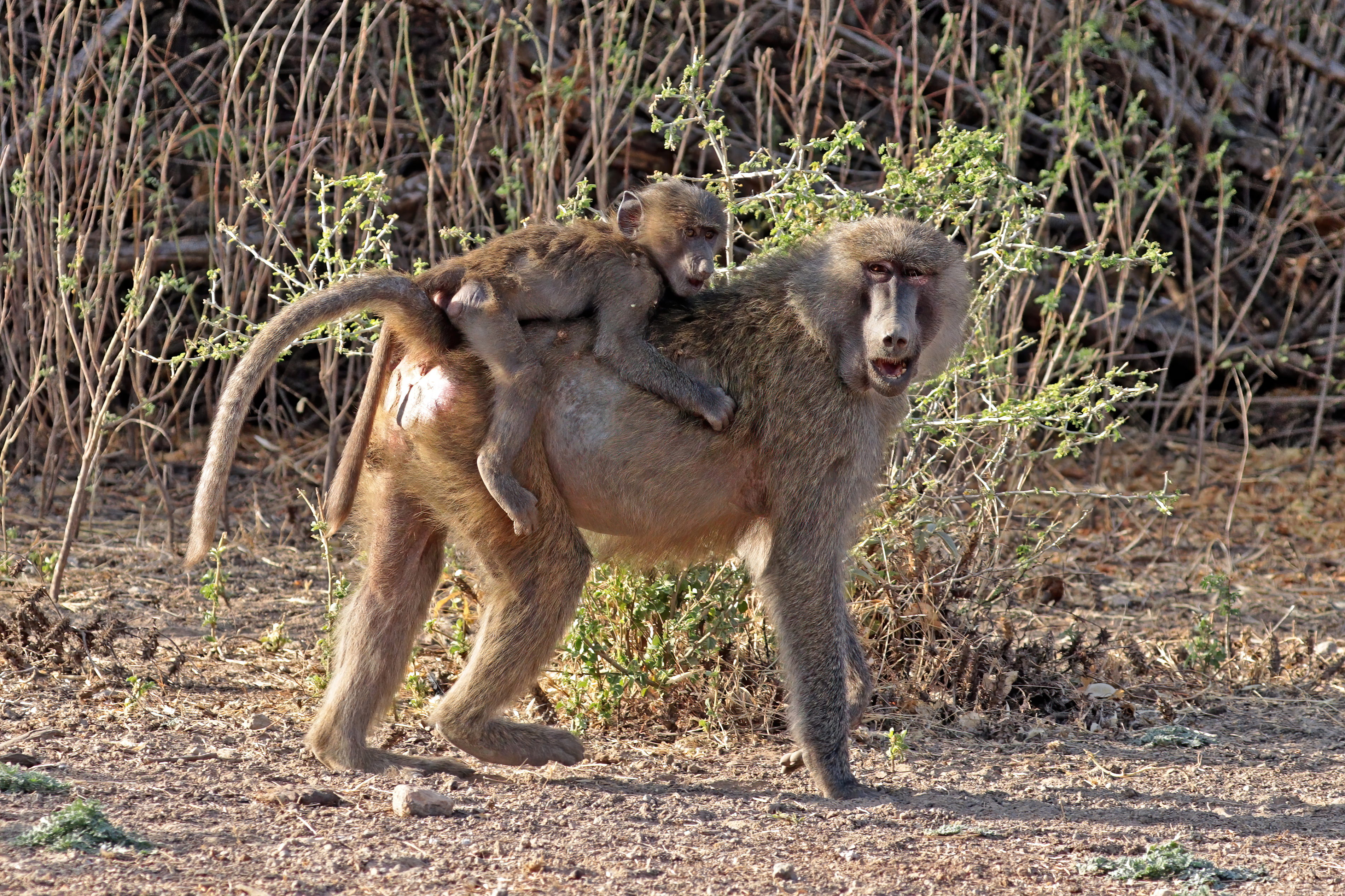 Hamadryas baboon (Papio hamadryas) mother carrying baby, Awash National Park, Ethiopia